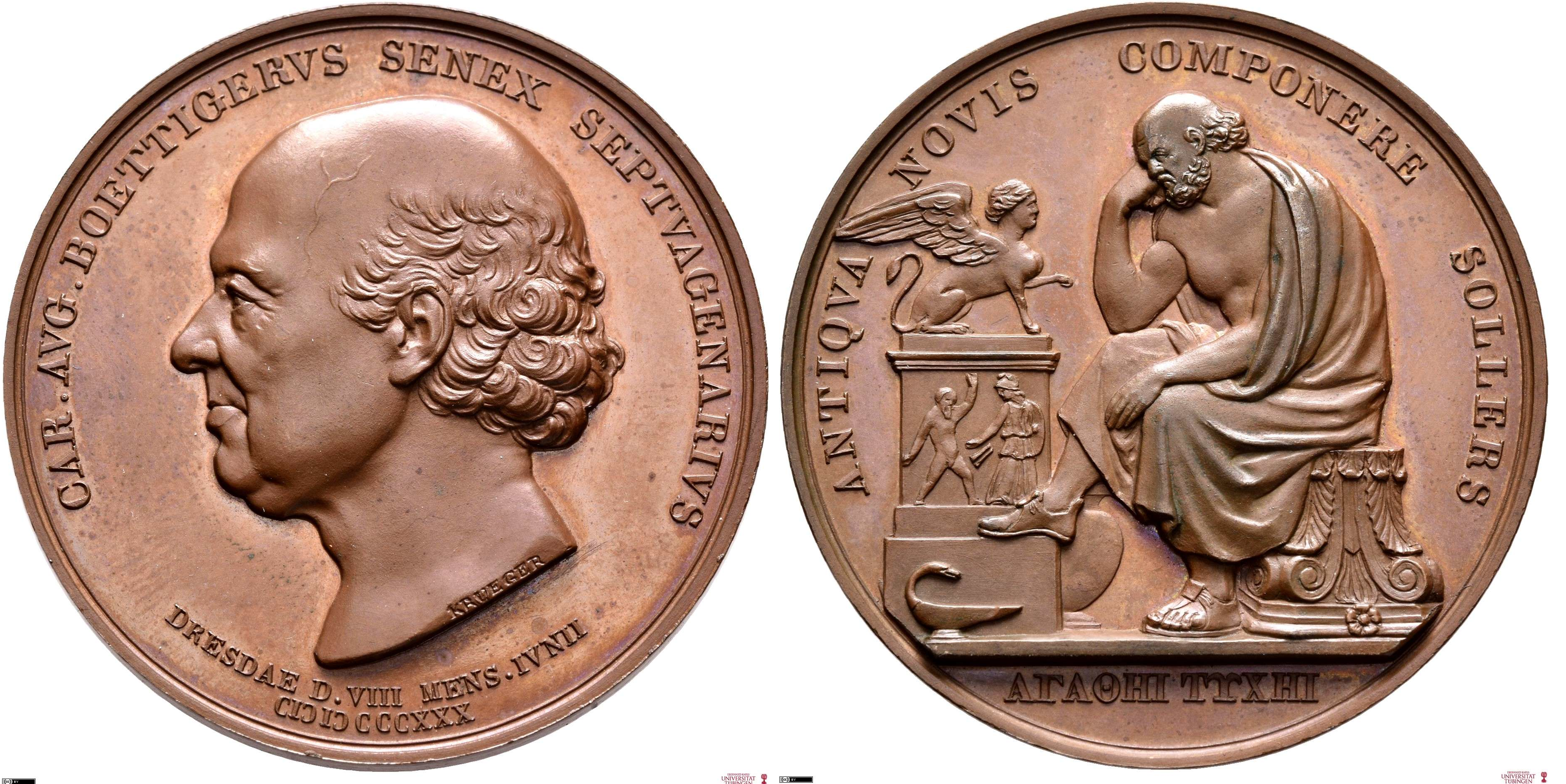 The front side depicts a bust of Böttiger surrounded by his name and age (70). Below the bust the date of his 70th birthday is given. The signature of the engraver Karl Reinhard Krüger has been placed upon the neck. The back side shows an old man reclining upon a reversed capital depicted in a thoughtful pose. On the other side upon an alter a small sphinx is to be found. This scene is enriched by the Latin inscription "skilful upon combining the old with the new" and more ancient objects. An ancient Greek congratulation is placed below the scene.